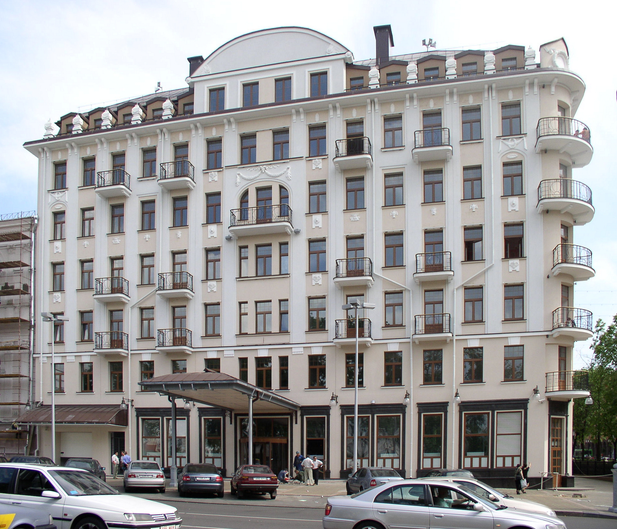 Hotel "Europe", Minsk, Belarus.